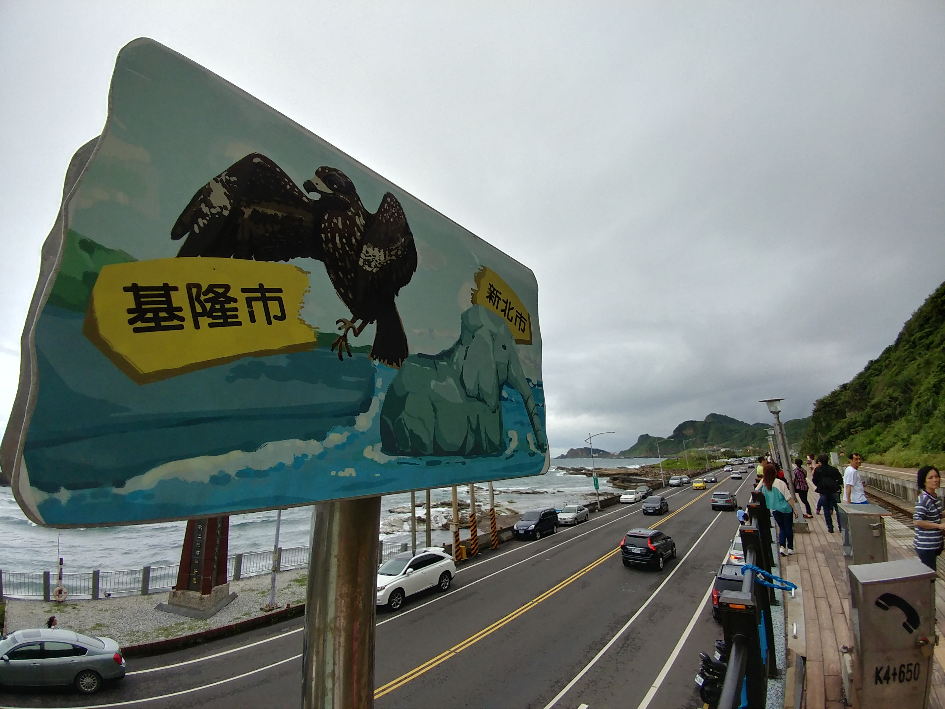 This sign shows the junction of Keelung and New Taipei City.